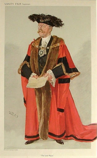 Caricature of Alderman Sir George Wyatt Truscott (1857-1941) (from 1909 Baron Truscott of Oakleigh), Lord Mayor of London.